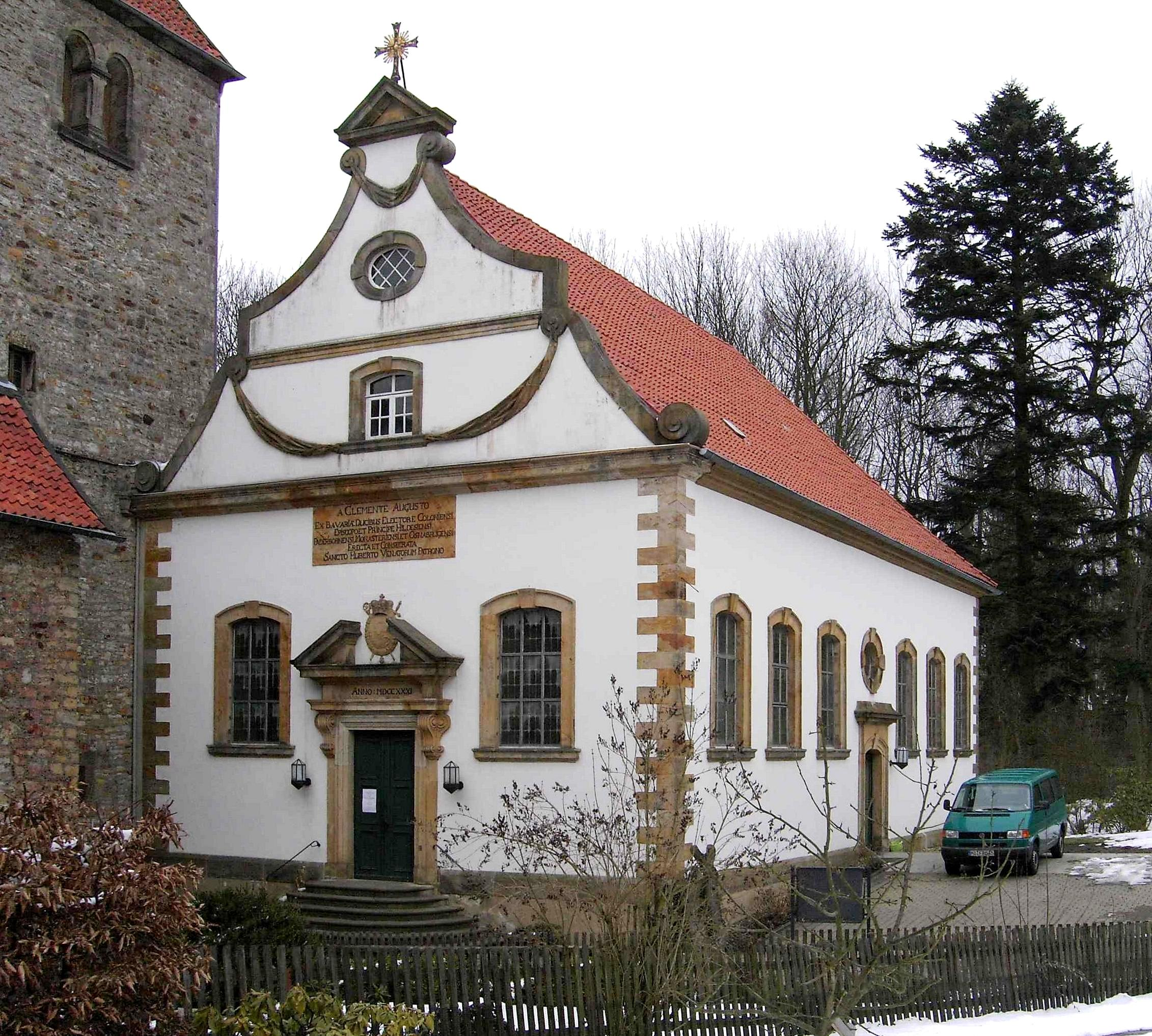 Description: Burg Wohldenberg at Sillium. Church Saint Hubert. *Photographer: Longbow4u, photo taken myself, 15.03.2006 *Permission: Panoramafreiheit *Licence